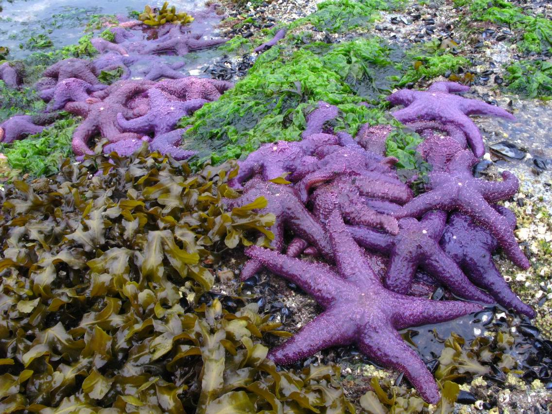 Another mess o'sea stars!